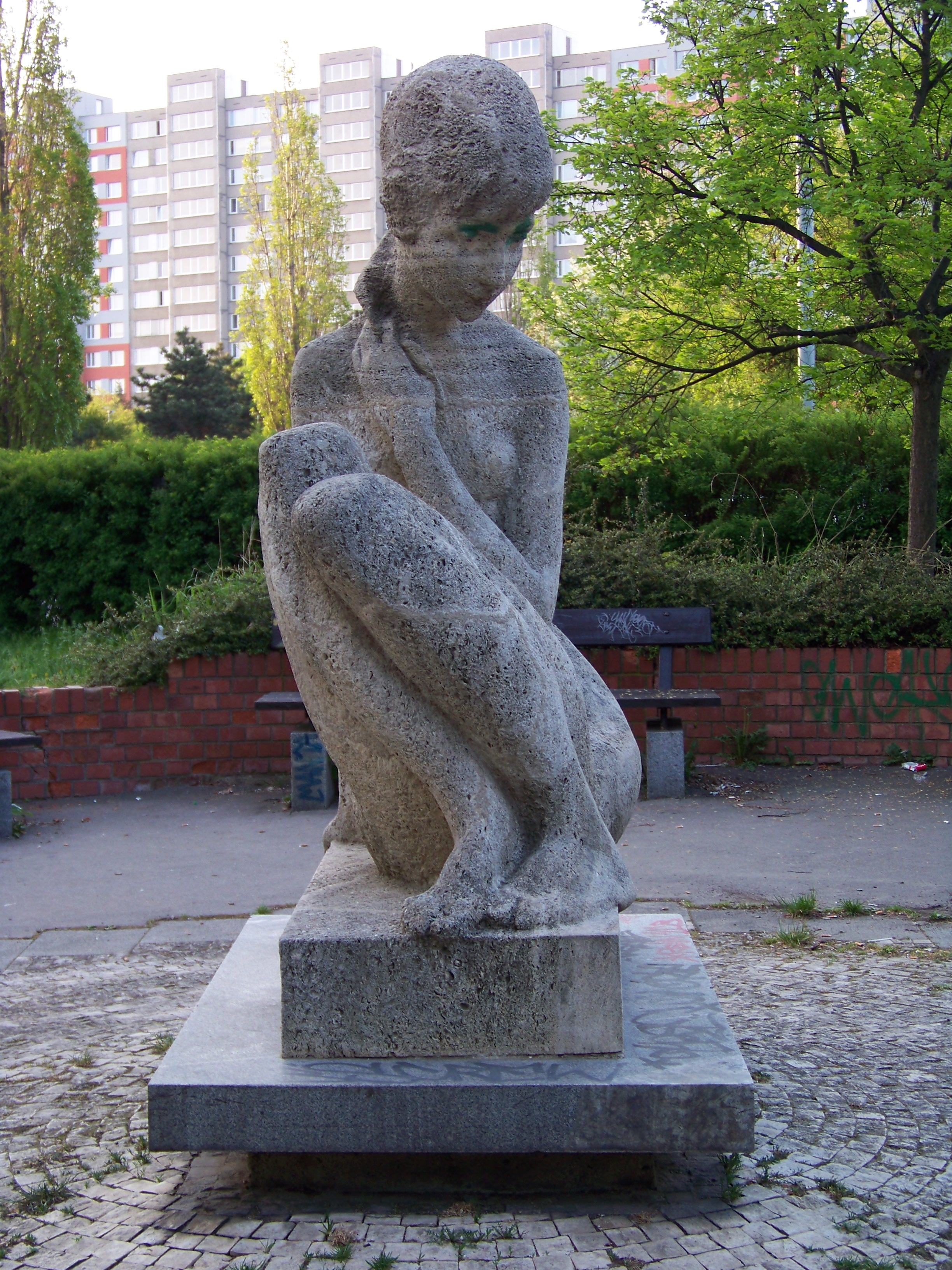 Chodov, Prague, the Czech Republic. A sculpture near Hněvkovského and Brandlova streets.